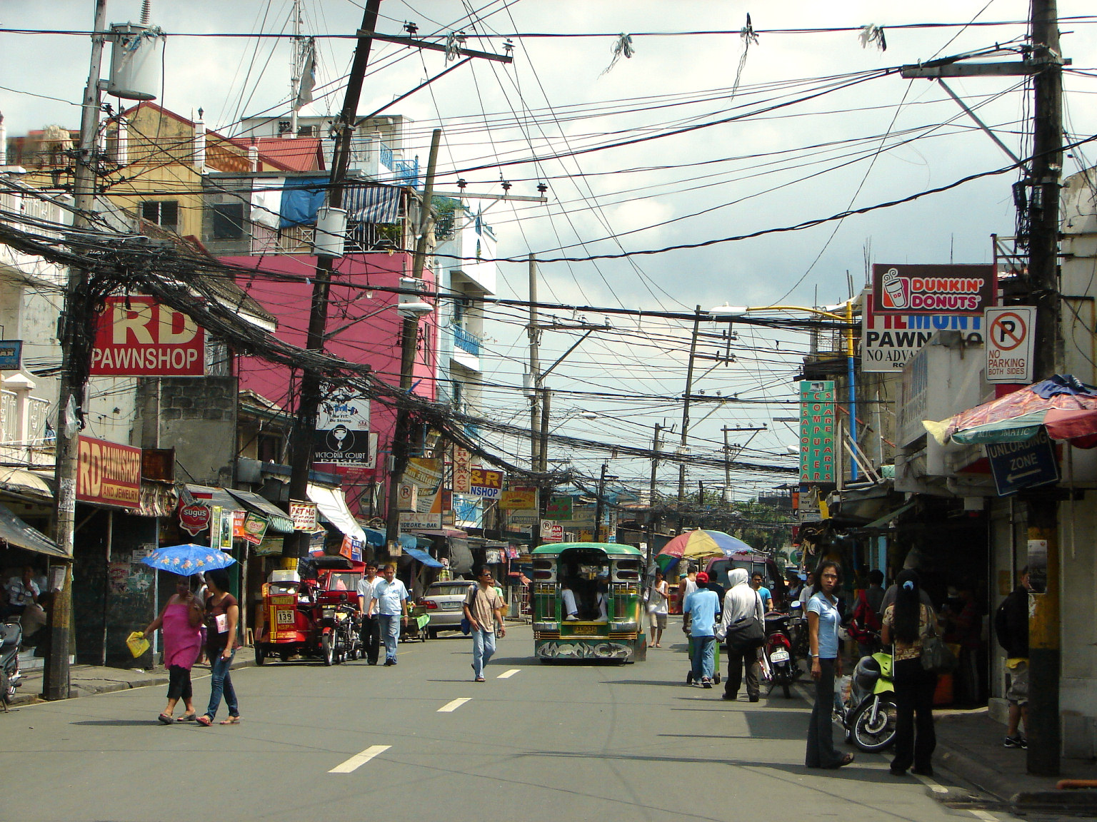 North end of Dr. Sixto Antonio Avenue, Pasig City, the Philippines